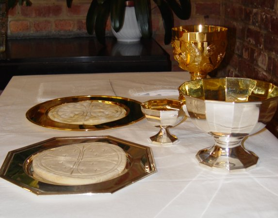 Preparation for the Eucharist.